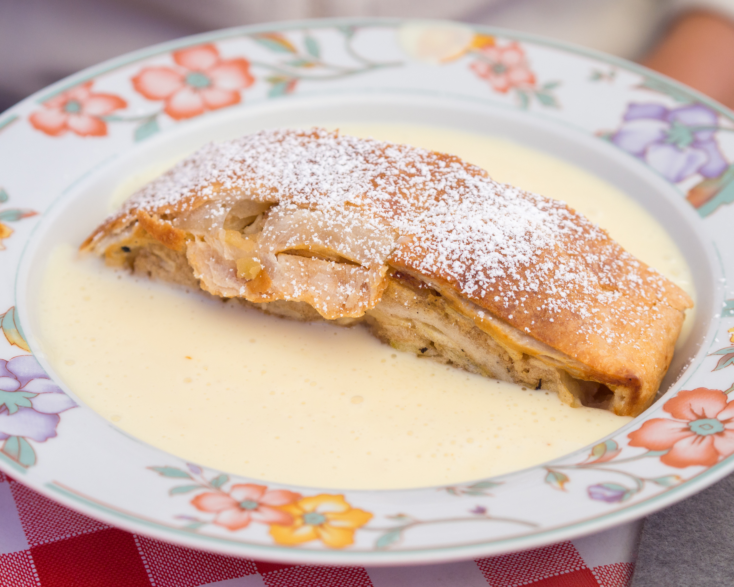 "Apfelstrudel mit Vanillesoße" at the Edelweisshütte above Sölden, Tyrol